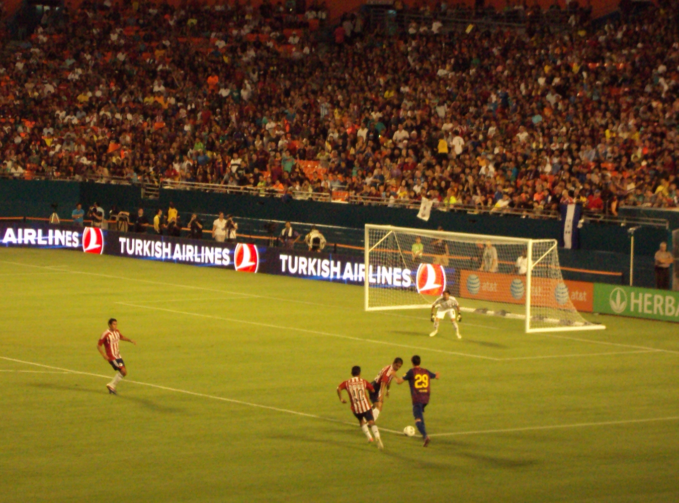 Isaac Cuenca, in the #29 uniform, playing for the FC Barcelona first team in a friendly against Chivas Guadalajara, in Miami, Florida. Cuenca was one of several Barcelona B players undergoing trials with the first team during the friendly.